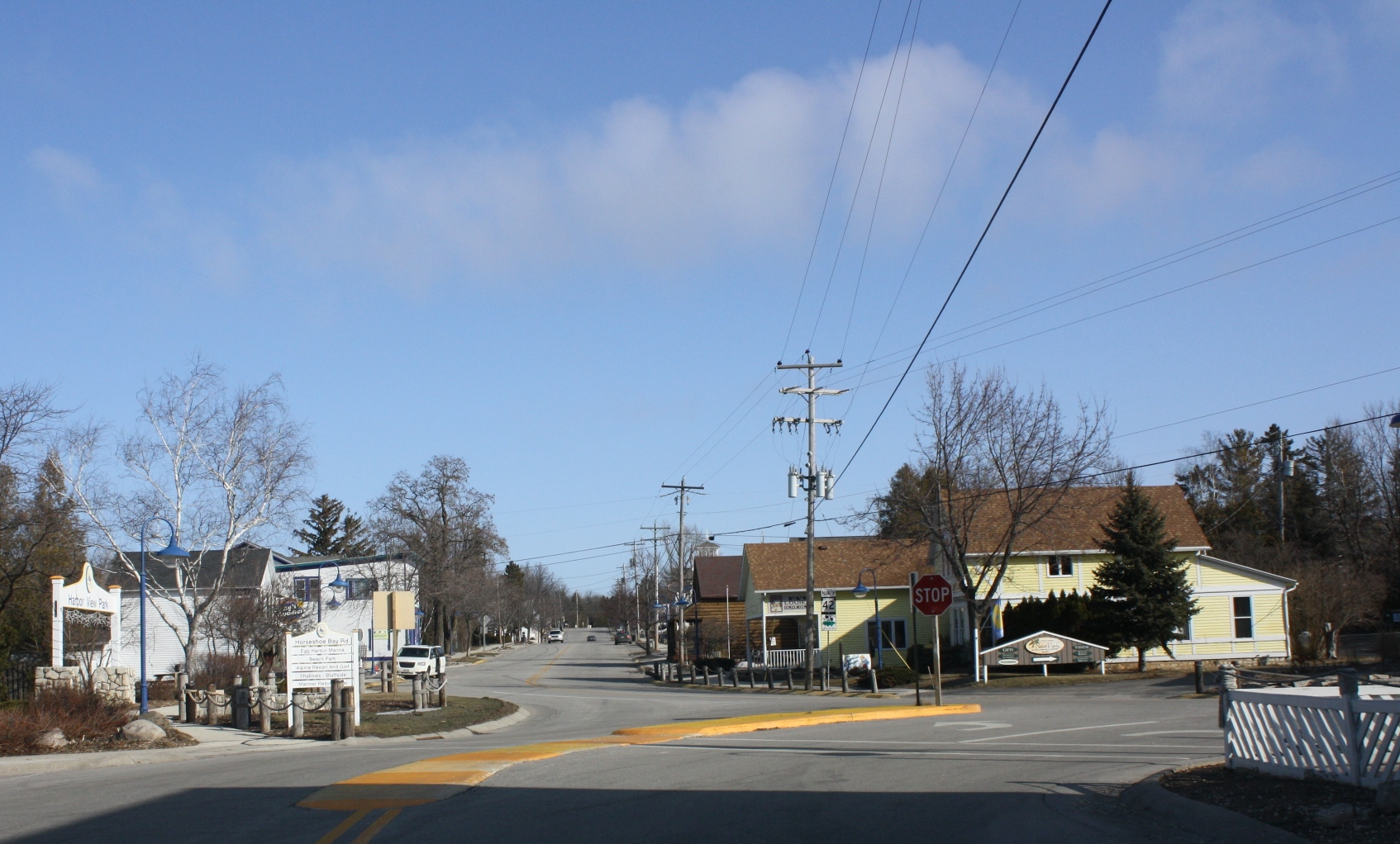 Looking northernly in downtown Egg Harbor, Wisconsin at Wisconsin Highway 42.